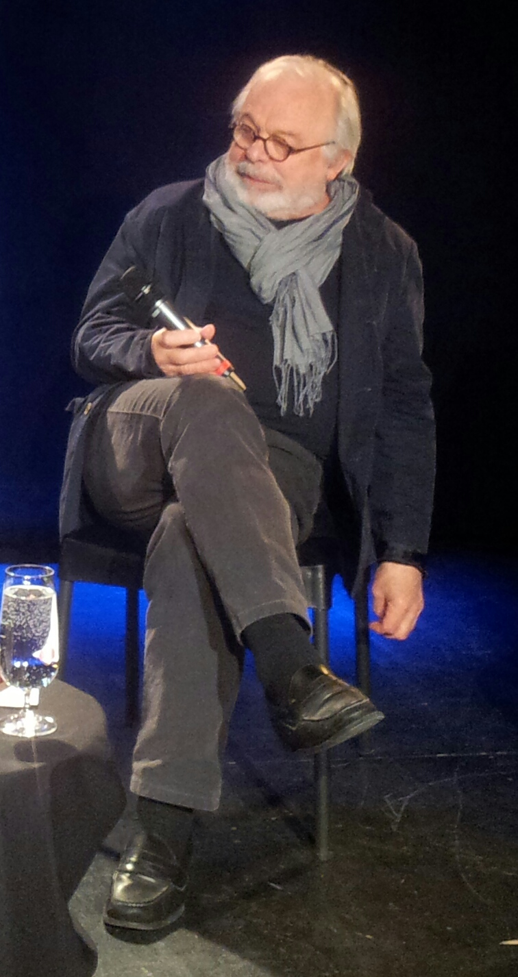 Raymond Cloutier photographed in Montréal, Québec, Canada.